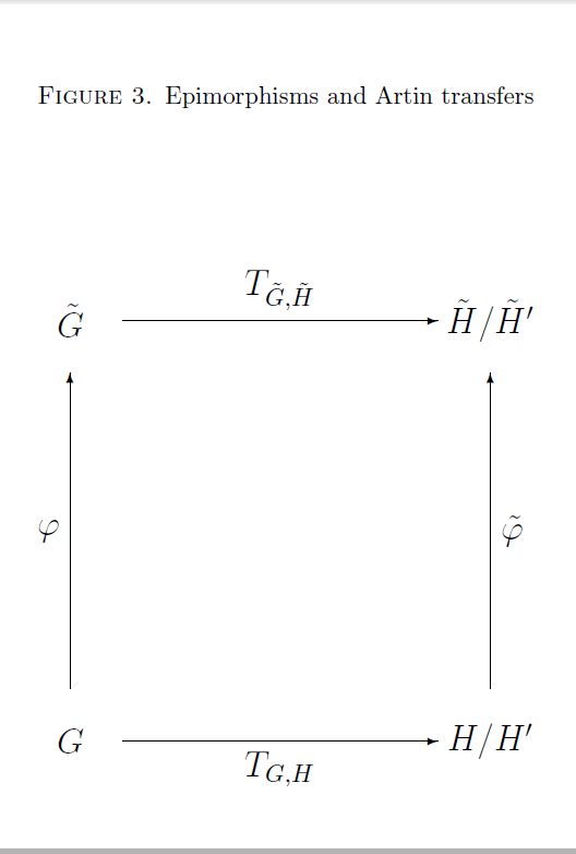 Artin transfer - Figure 3: Epimorphisms and derived quotients. User:DanielConstantinMayer added png-file "Epimorphisms and Artin transfers"